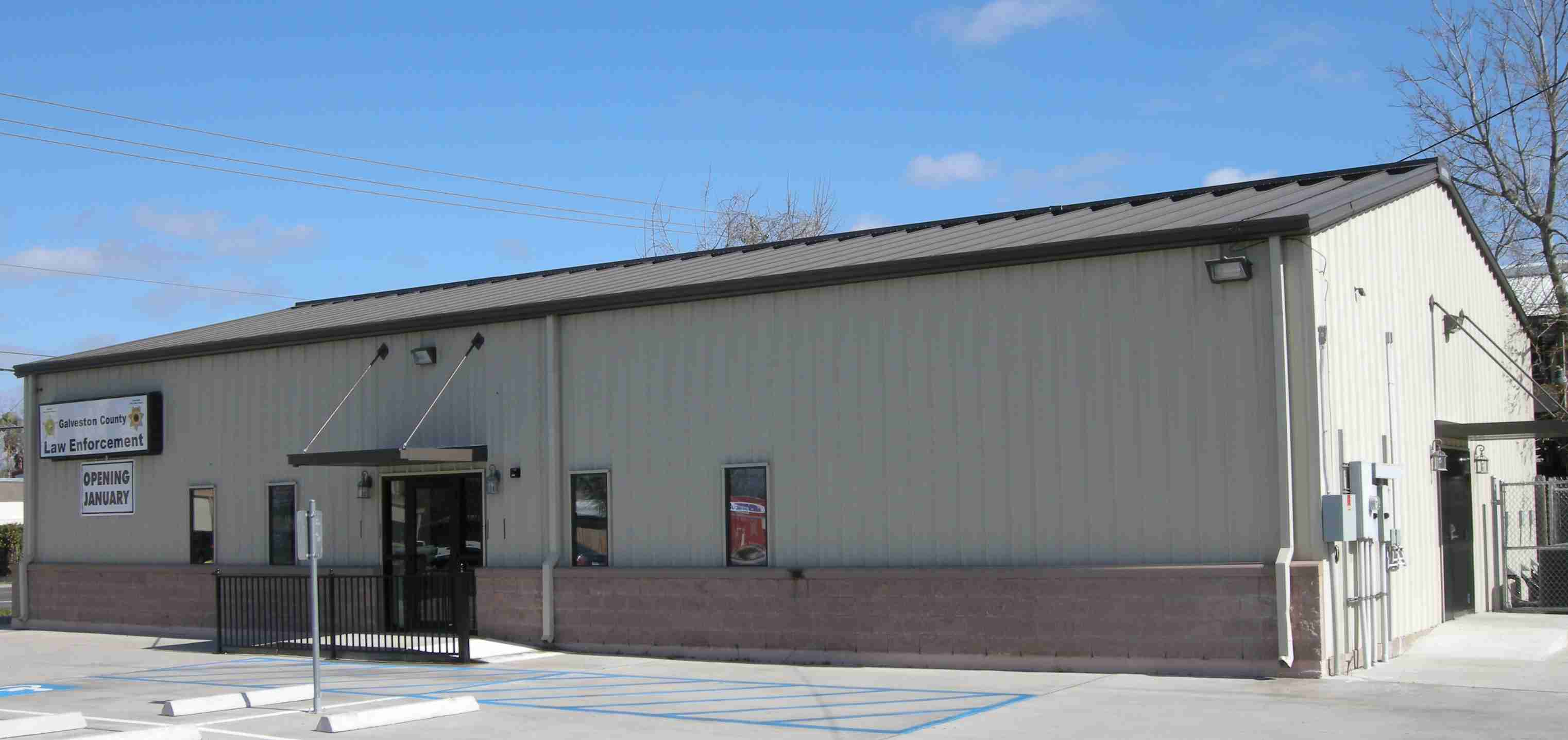 Law Enforcement Center opened in Bacliff on the corner of 12th Street and Grand Avenue in January 2016. Office for Galveston County Sheriff's office and Precinct 1 Constable Rick Sharp. Building and real estate was former illegal gambling hall, was confiscated by Galveston District Attorney's office.